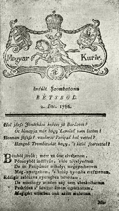 Newspaper from Hungary, Magyar Kurir, 1786